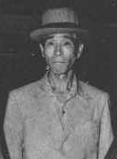 Shigenori Kuroda